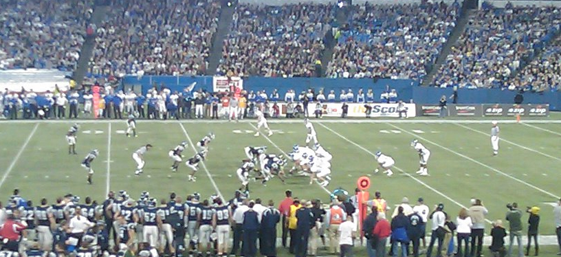 en:2009 International Bowl, Buffalo on offense in white, Connecticut on defense in blue.